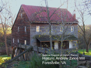 The Historic Andrew Zirkle Mill in Forestville VA, National Register of Historic Places and Virginia Landmark Registry. Owned and operated by Andrew Zirkle, Patriot of the American Revolution.